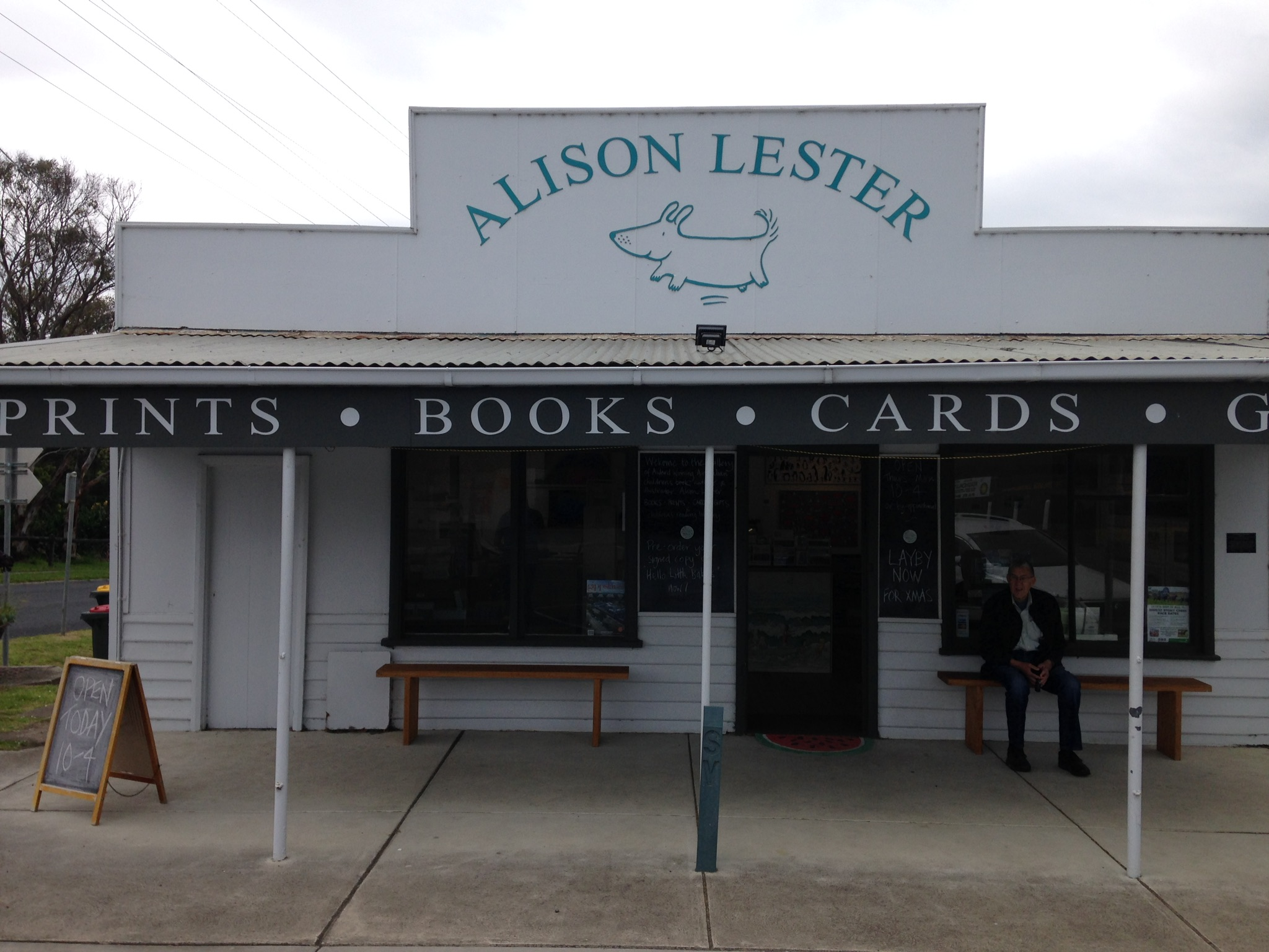 External view of the gallery of Alison Lester, illustrator of children's books. The gallery is in Fish Creek, Victoria.